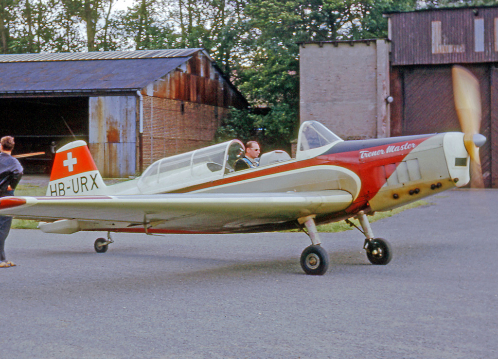 Zlin Z-326 Trener Master HB-URX registered in Switzerland at Lille-Bondues airfield in 1965